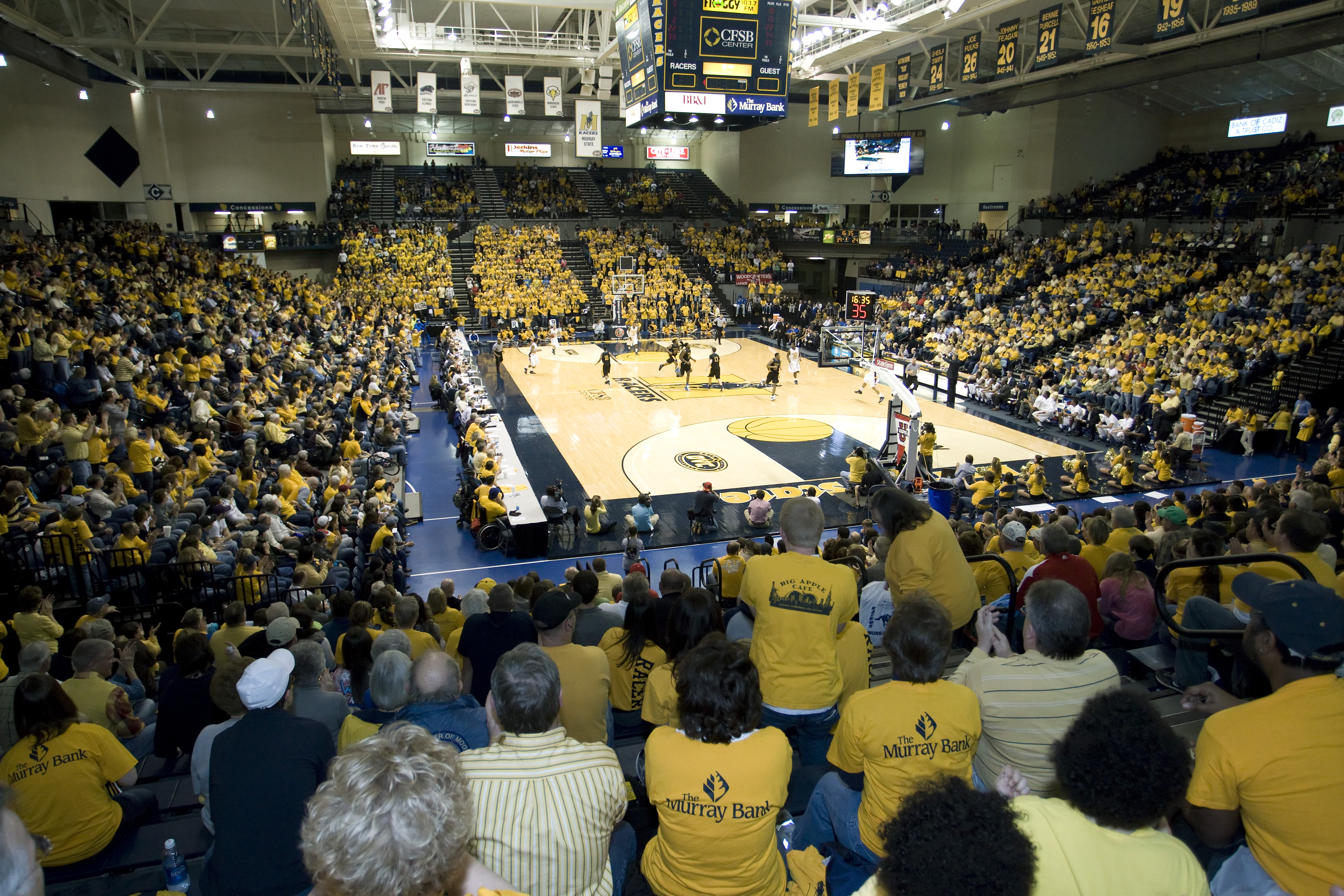 CFSB Center (Murray State vs Morehead State)